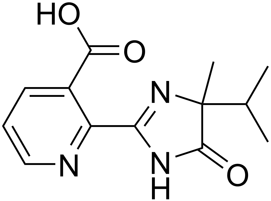 Chemical structure of imazapyr (Arsenal)